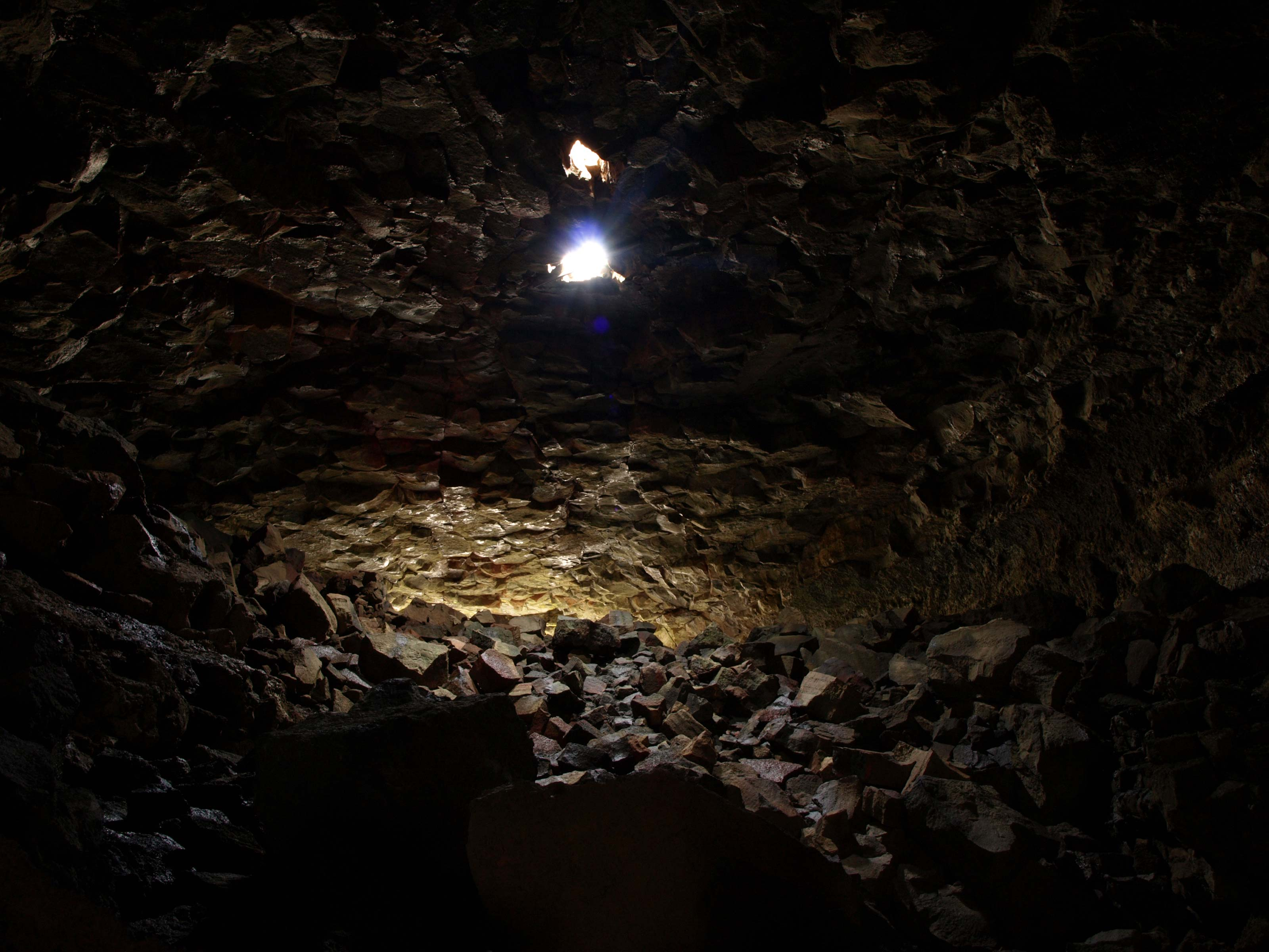 Inside Surtshellir, the longest lava cave in Iceland - between 1,5-2 km.